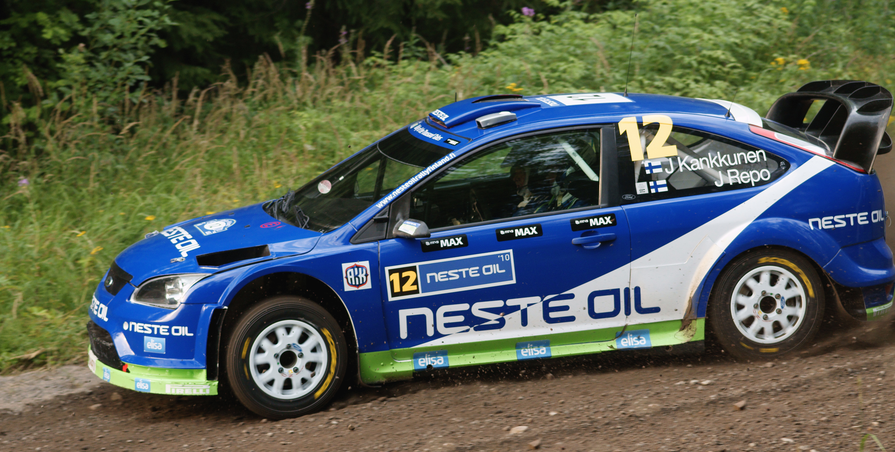 Juha Kankkunen driving at Laajavuori special stage, Rally Finland 2010.